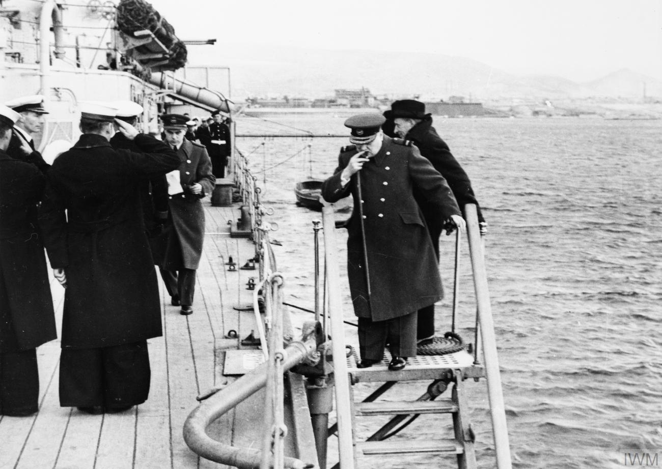 IWM caption : PRIME MINISTER WINSTON CHURCHILL DURING HIS VISIT TO GREECE, 28 DECEMBER 1944. Prime Minister Winston Churchill leaving HMS AJAX to attend a conference ashore. Athens can be seen in the background